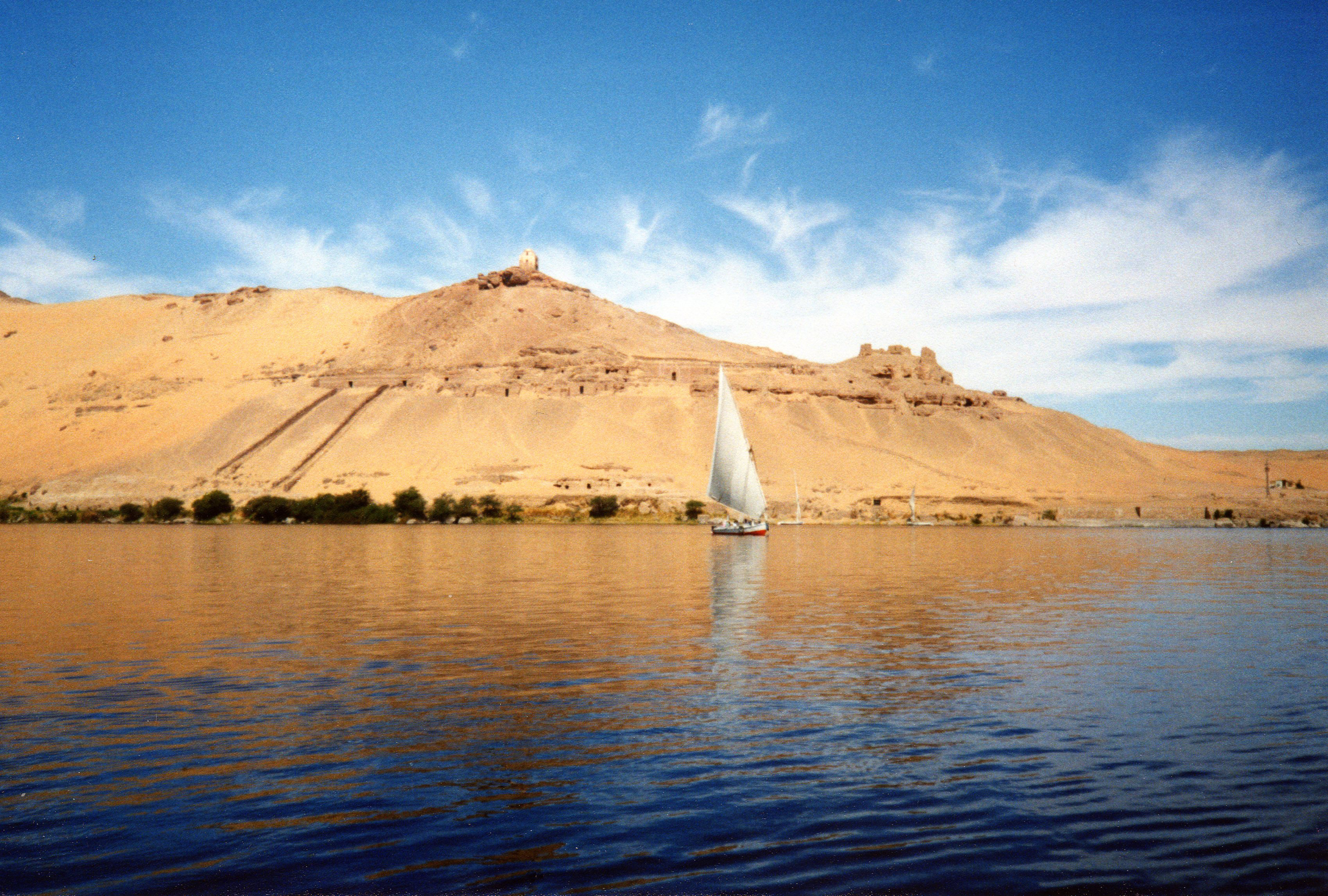 The River Nile near Aswan, Egypt.